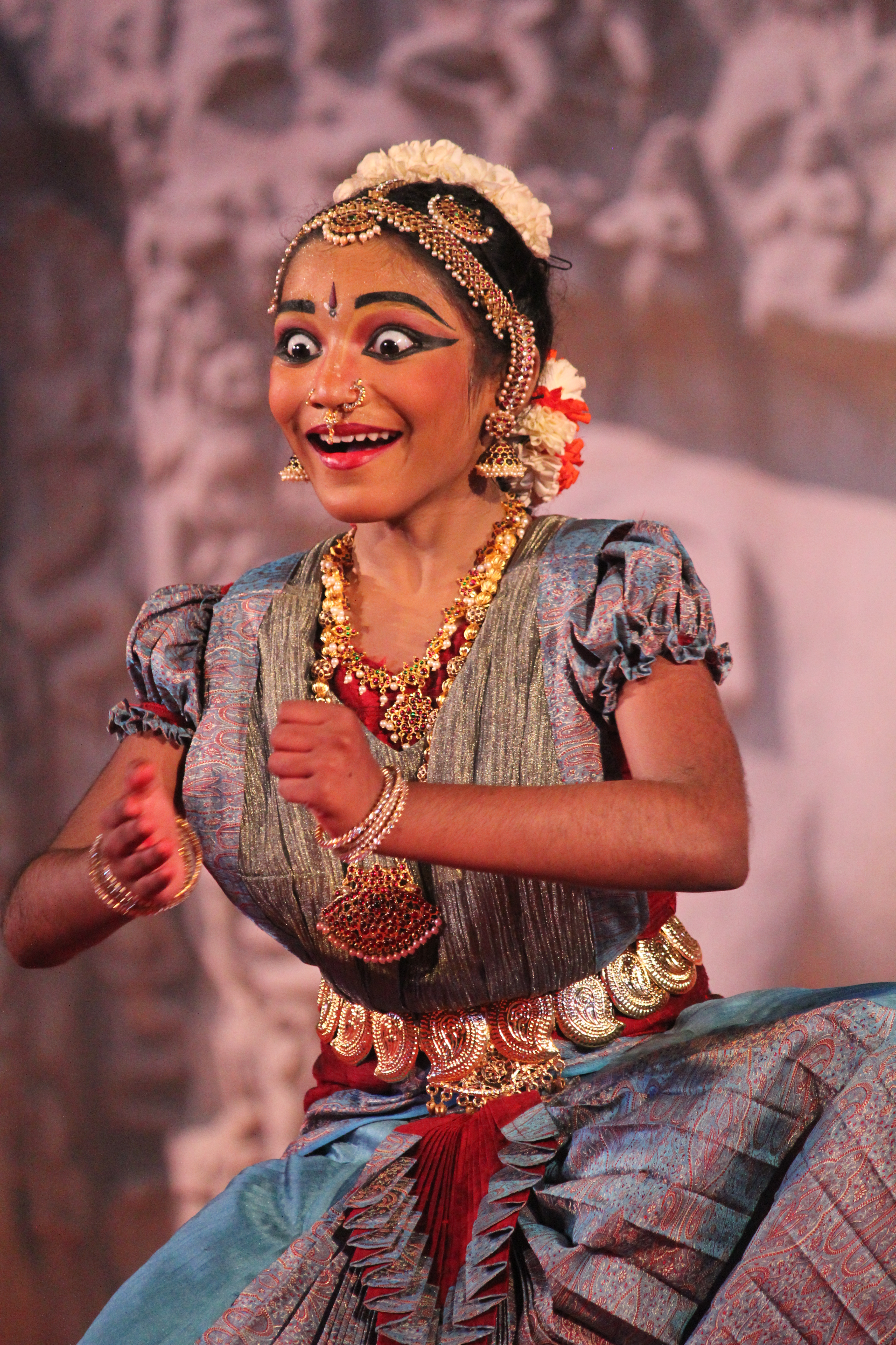 Mamallapuram, Indian Dance Festival, Bharatanatyam, Vithisha performing "Vishamakkaara Kannan" Mahabalipuram, also known as Mamallapuram is a town in the Indian state of Tamil Nadu. It is an ancient historic town and was a bustling seaport during the time of Periplus (1st century CE) and Ptolemy (140 CE). Ancient Indian traders who went to countries of South East Asia sailed from the seaport of Mahabalipuram. By the 7th century it was a port city of South Indian dynasty of the Pallavas. It has a group of sanctuaries, which was carved out of rock along the Coromandel coast in the 7th and 8th centuries: rathas (temples in the form of chariots), mandapas (cave sanctuaries), giant open-air reliefs such as the famous 'Descent of the Ganges', and the Shore Temple, with thousands of sculptures to the glory of Shiva. The group of monuments at Mahabalipuram has been classified as a UNESCO World Heritage Site. The Indian (or Mamallapuram) Dance Festival is held every year during Dec-Jan in Mamallapuram, Tamil Nadu. This dance festival is organised by Department of Tourism, Govt. of Tamil Nadu. Exponents of Bharatanatyam, Kuchipudi, Kathak, Odissi, Mohini Attam and Kathakali perform against this magnificent backdrop of the Pallava rock sculptures. Bharata Natyam, also spelled Bharatanatyam, is a form of Indian classical dance that originated in the temples of Tamil Nadu. This dance form is the product of various 19th- and 20th-century reconstructions of Sadir, the art of temple dancers called Devadasis. It was described in the treatise Natya Shastra by Bharata around the beginning of the common era. Bharata Natyam is known for its grace, purity, tenderness, expression and sculpturesque poses. Lord Shiva is considered the God of this dance form. Today, it is one of the most popular and widely performed dance styles and is practiced by male and female dancers all over the world. (sources: and